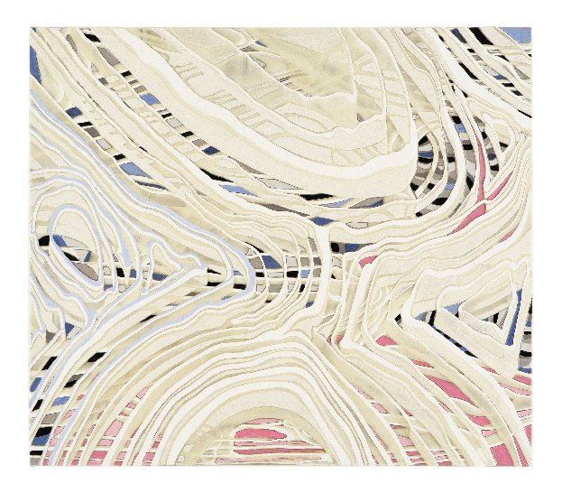 Painting by Kathleen Kucka, 2007, titled Building as Nature. 2007 28" x 32" Acrylic paint on Linen